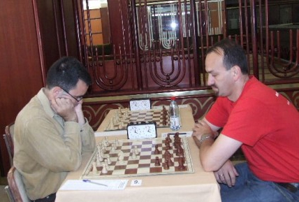 Slavko Dedić (left) during the game in Bar, Montenegro, 2006.